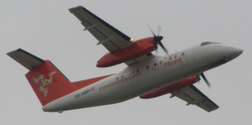 De Havilland Canada DHC-8-201 Registered OE-HBB and operated by Euromanx at Manchester Airport, England